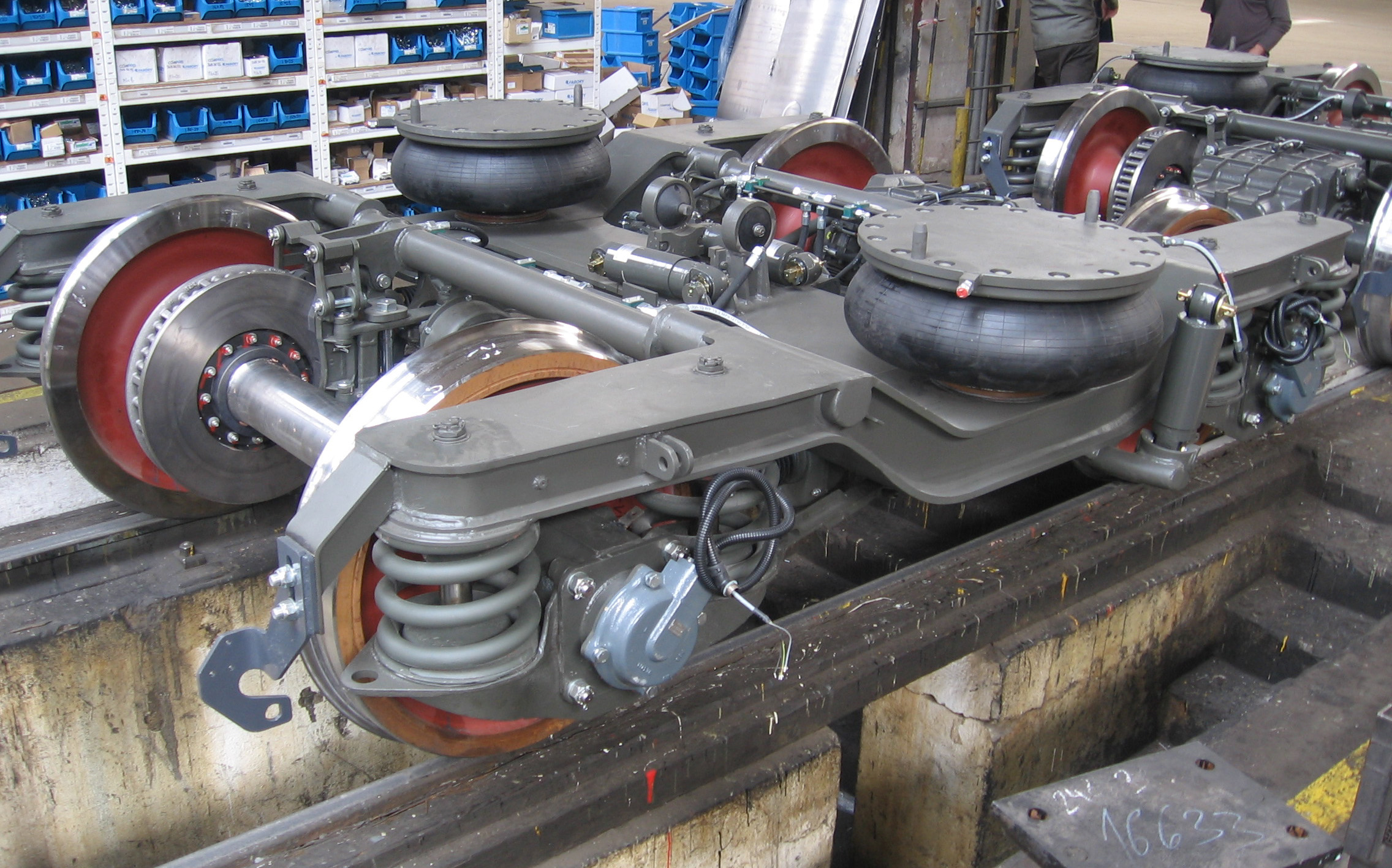 ČD Class 842 bogie - trailing axle